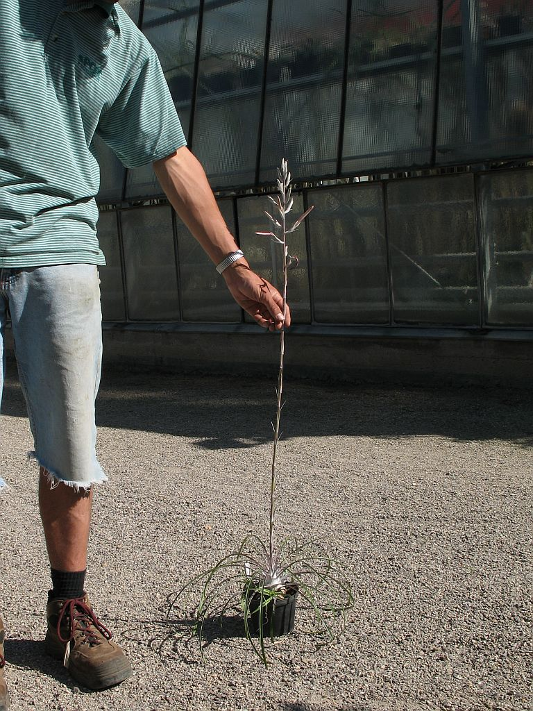 Puya grafii in cultivation at the Botanical Garden of Heidelberg, Germany.